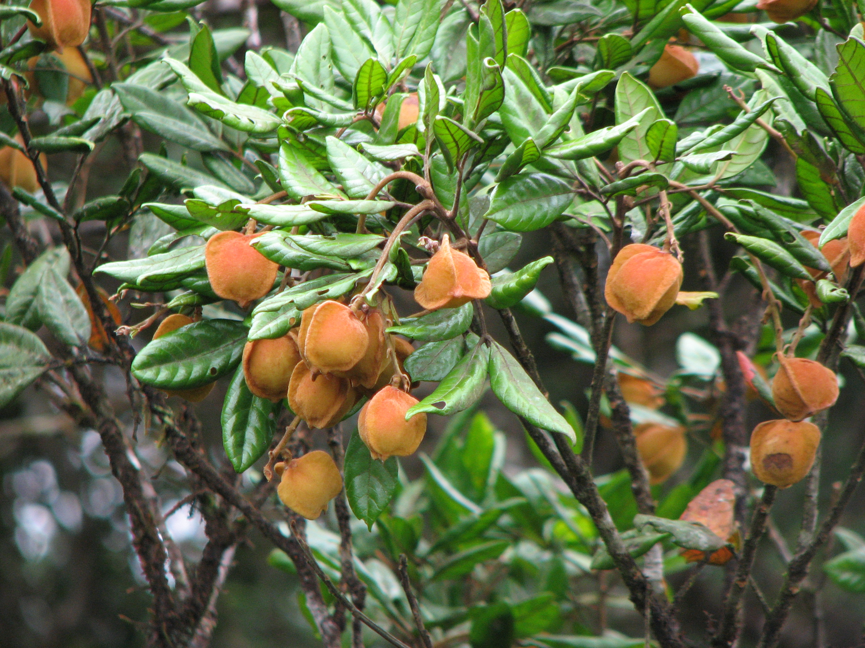 Sarcopteryx montana SAPINDACEAE growing in very wet simple notophyll vineforest on the eastern edge of the Carbine Tableland, Mossman, Queensland. Altitude 1000 m.